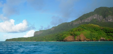 The island of Naitauba, Fiji. The Hermitage-Ashram of Adi Da Samrajashram.